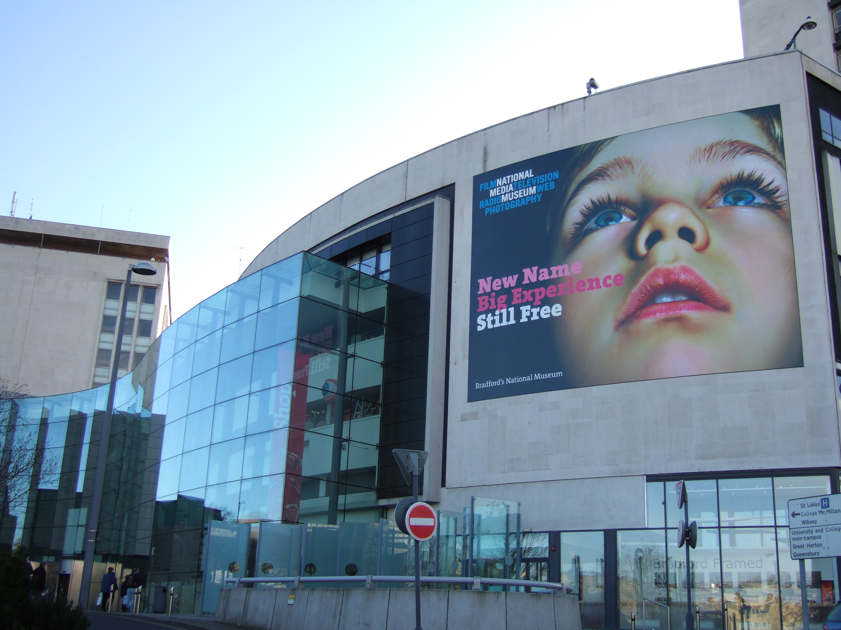 Photograph of the National Media Museum, Bradford. Taken by myself (Mark Morton) on 2 December 2006.